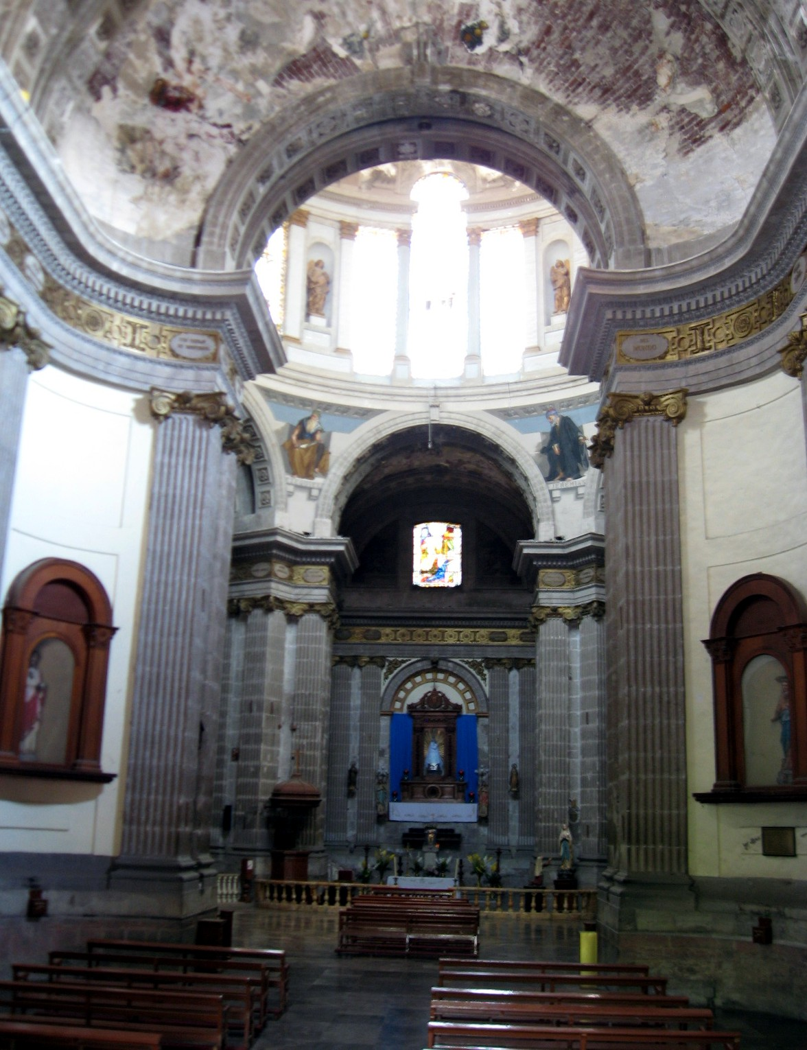 View of rotunda from nave of the Nuestra Señora de Loreto Church in the historic center of Mexico City